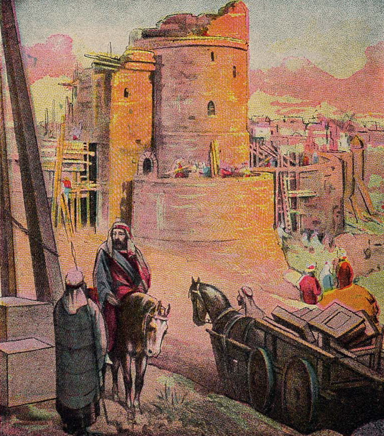 Building the Wall of Jerusalem; as in Nehemiah; illustration from Sunrays quarterly